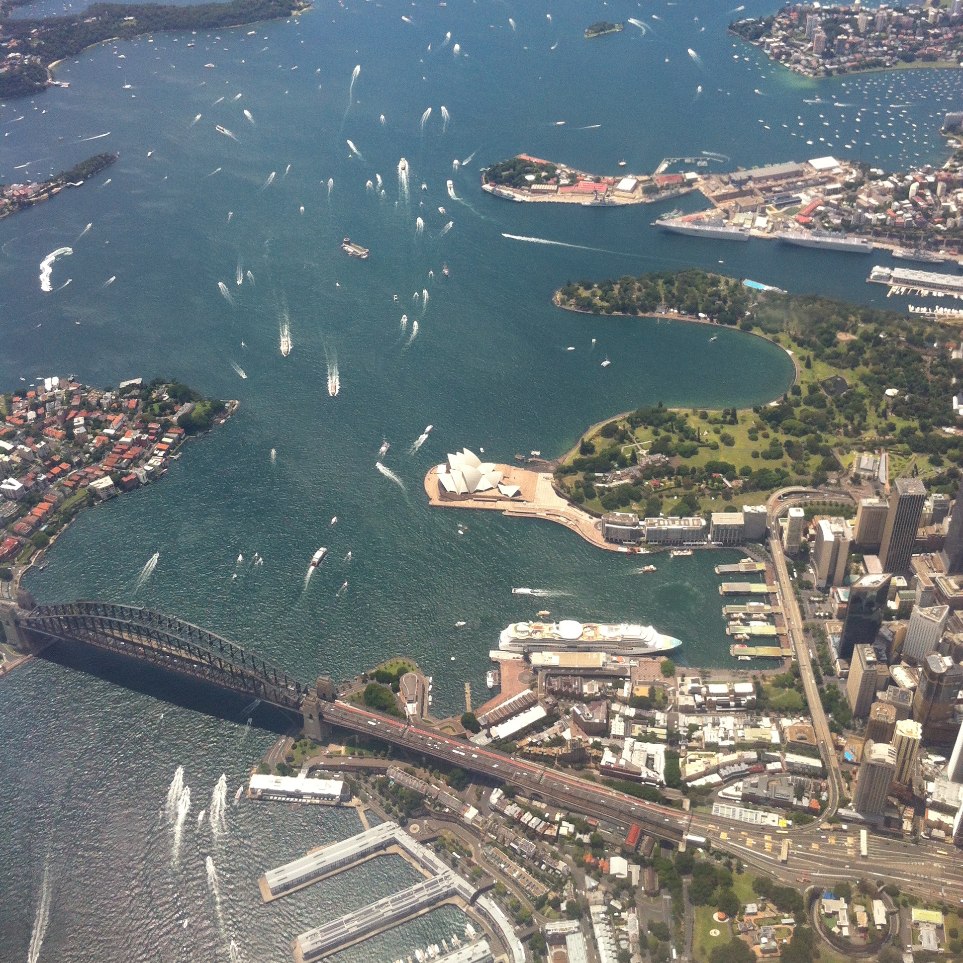 Aerial view of Sydney Harbour